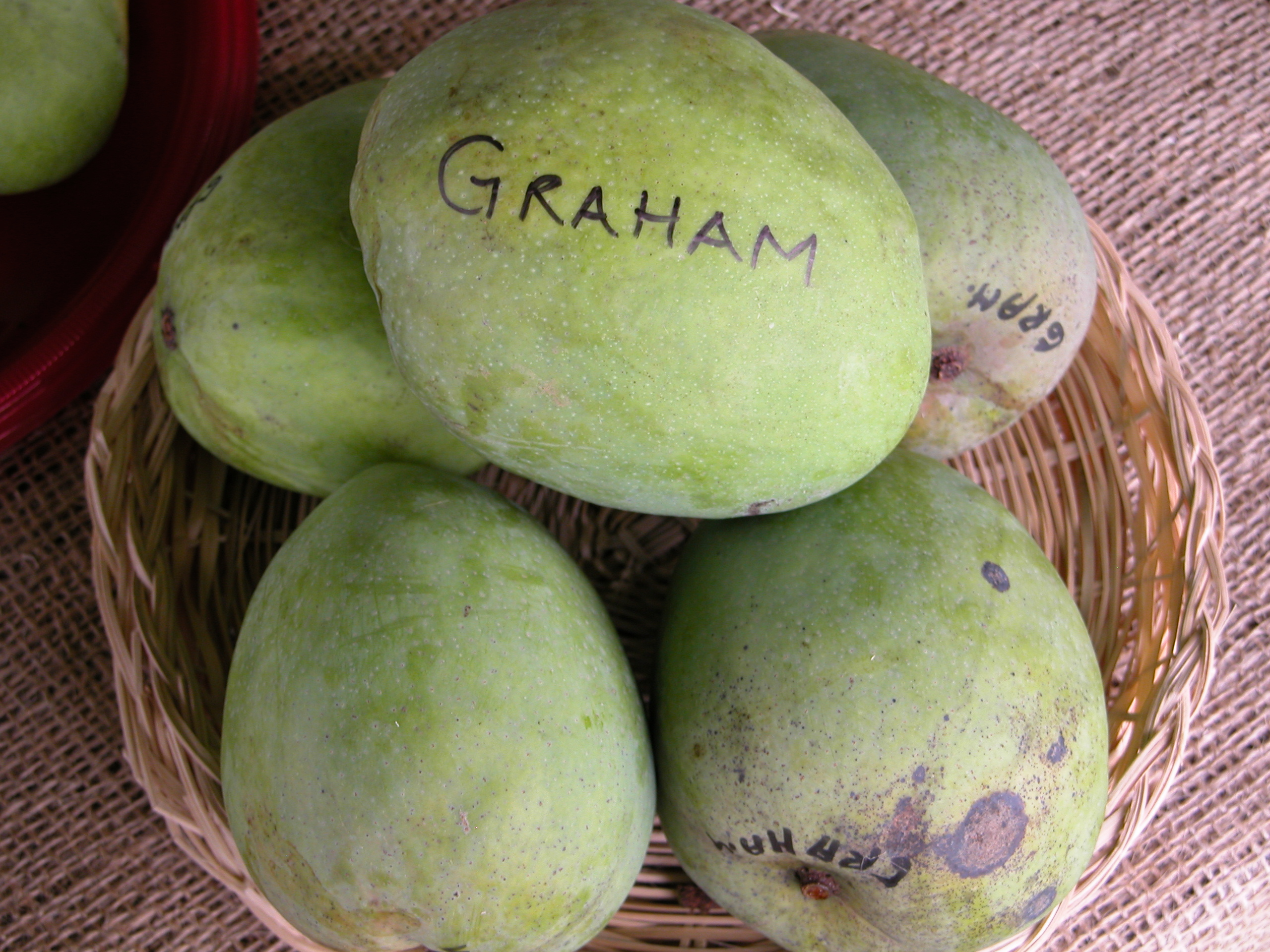 This is a photo of the display of Graham mango at the Tropical Agricultural Fiesta in the Fruit & Spice Park in Homestead, Florida.